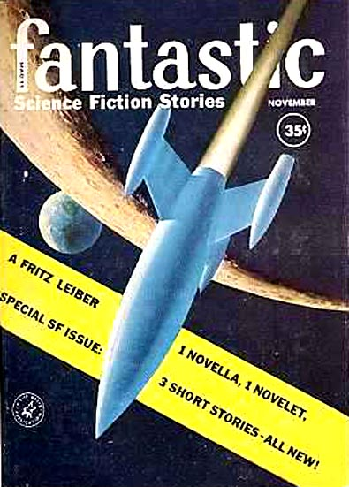 Cover of Fantastic, November 1959